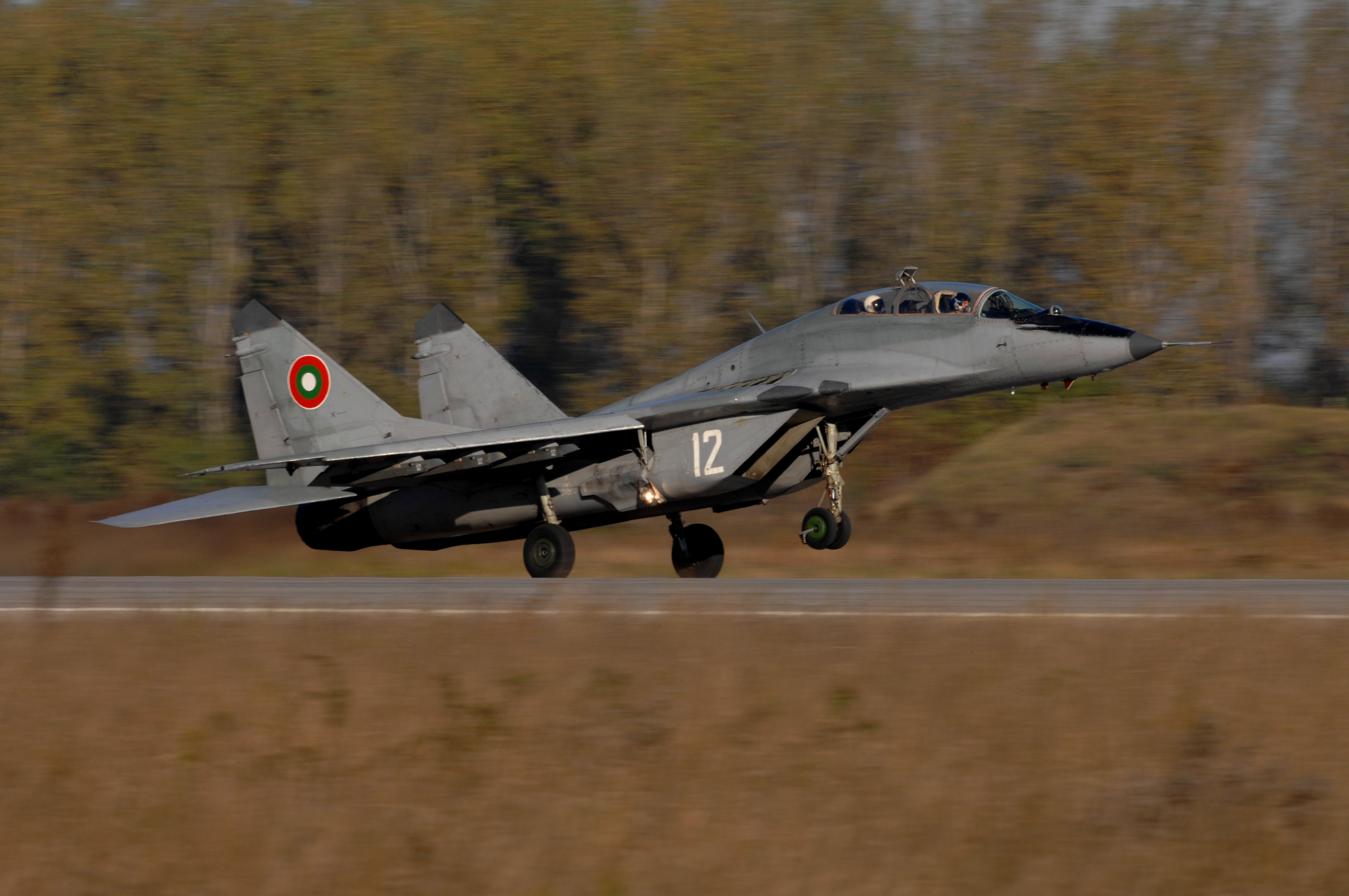 A Bulgarian Air Force MiG-29 Fulcrum aircraft takes off for a combat training mission during exercise Rodopi Javelin 2007 at Graf Ignattevo Airfield, Bulgaria, Oct. 17, 2007. Over 250 U.S. Airmen assigned to Aviano Air Base, Italy, joined the Bulgarian Air Force during the training. (U.S. Air Force photo by Staff Sgt. Michael R. Holzworth/Released)